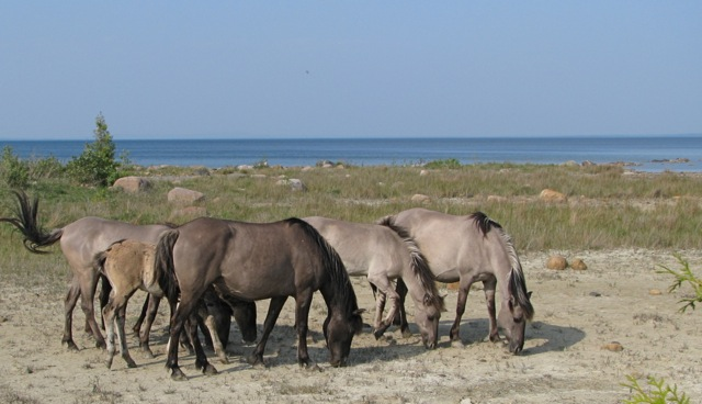 A group of Sorraia horses nibble on the sparse sedge grasses on the shore of Lake Huron's famous North Channel. These horses exhibit the homogenous phenotype typical of the wild tarpan type horses. Ravenseyrie Sorraia Mustang Preserve, Manitoulin Island, Ontario, Canada